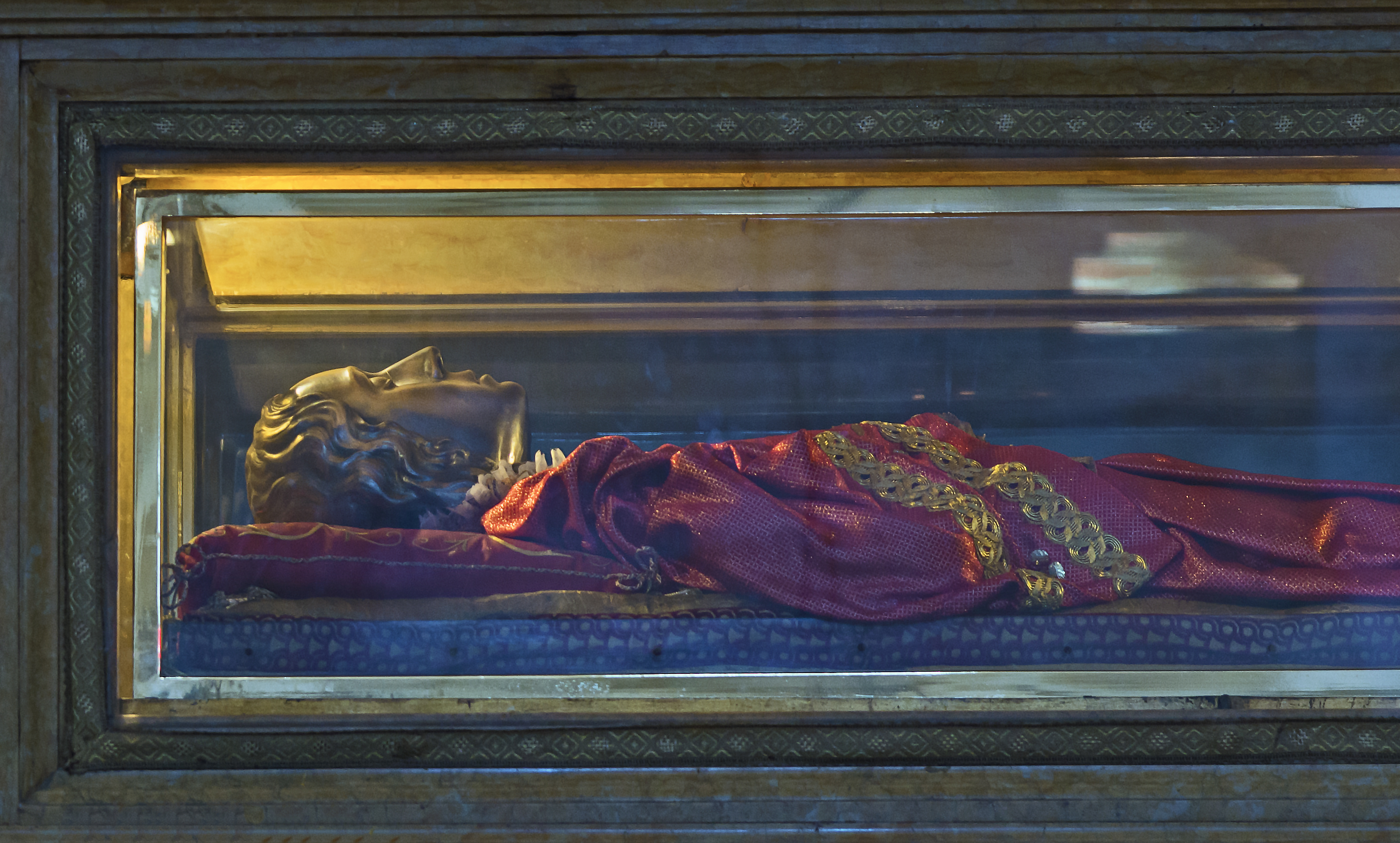 San Geremia, Venice. Santa Lucia's agent mask